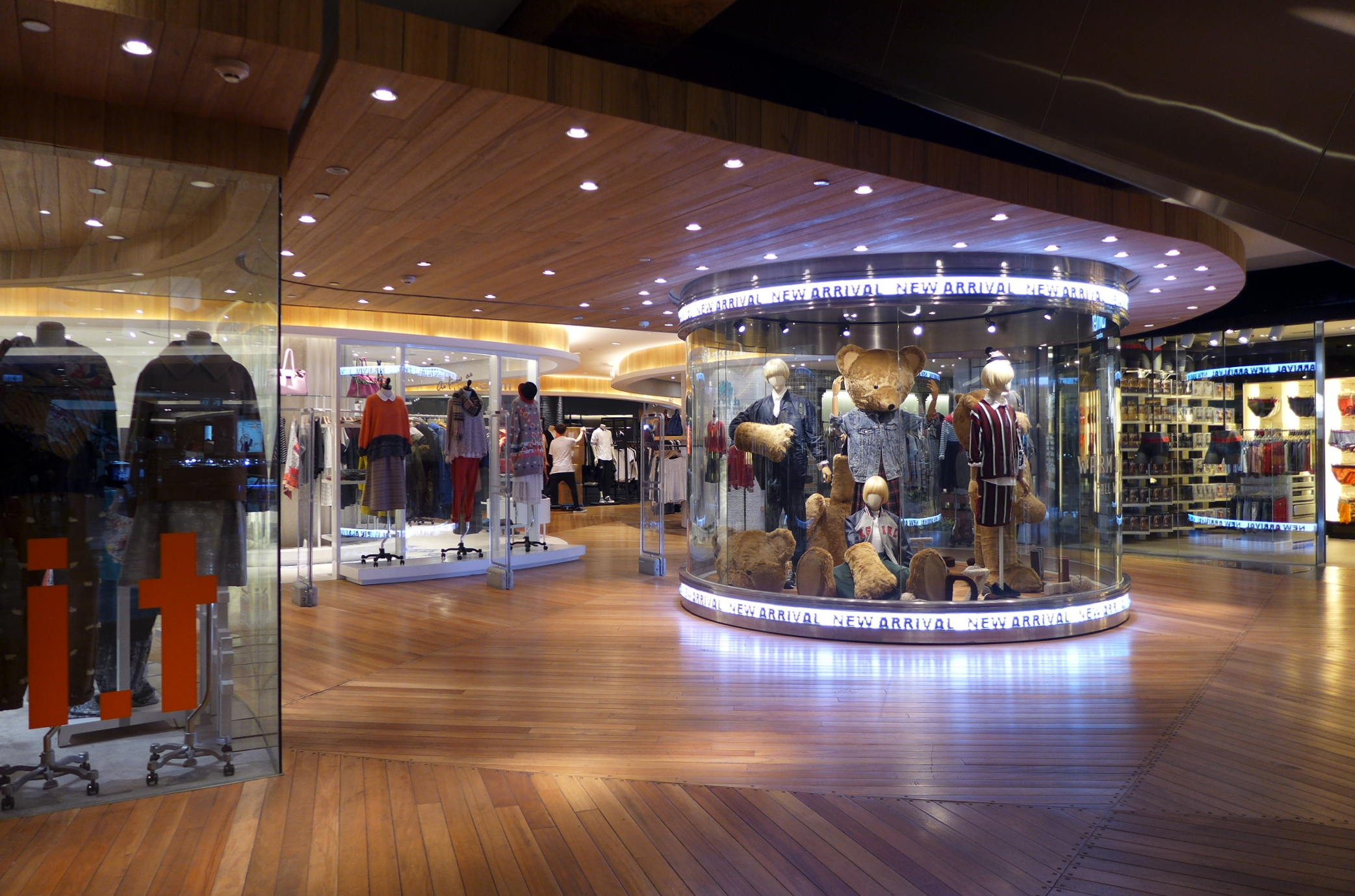 It shop in Langham Place